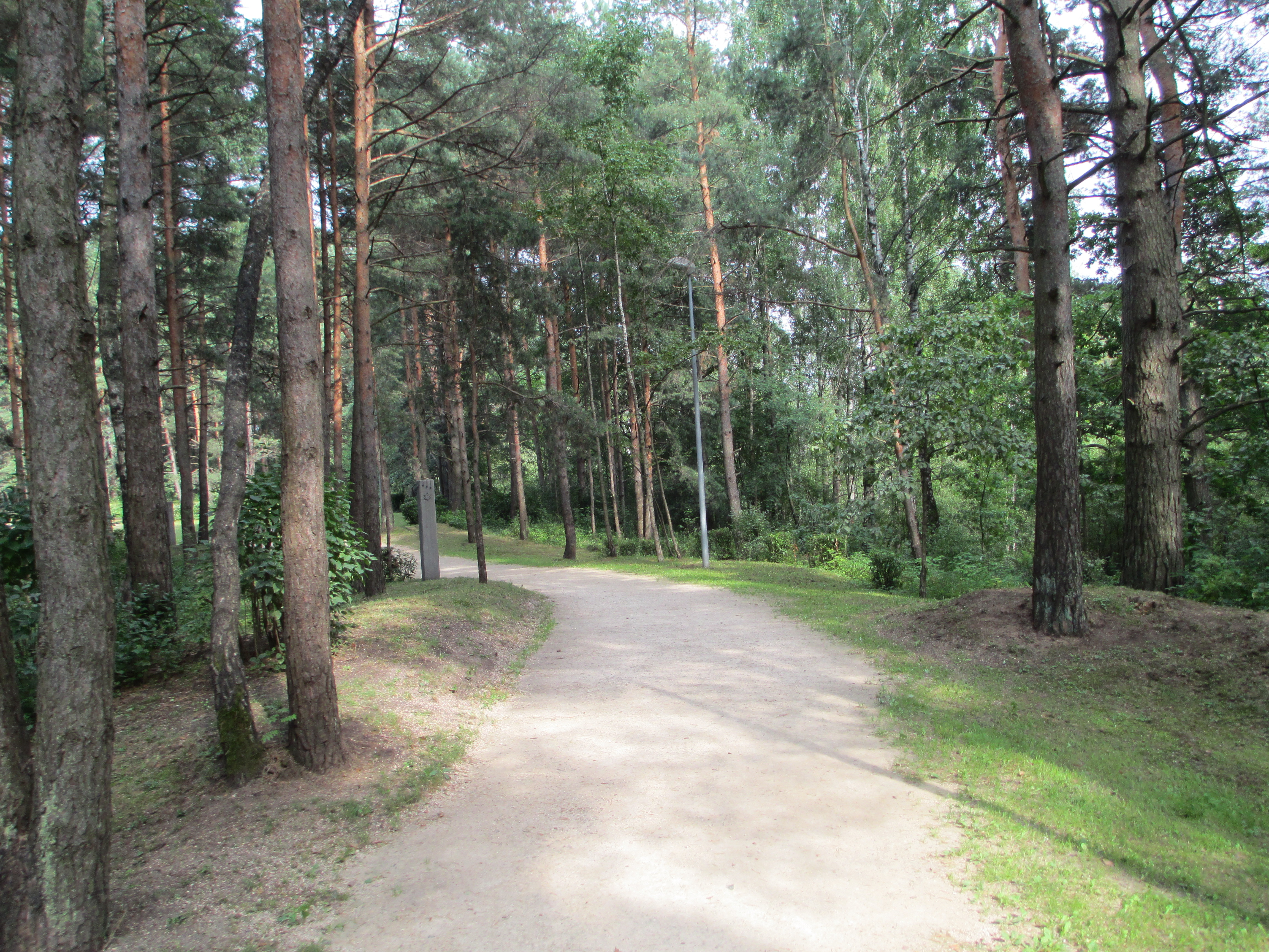 rumbual forest-the way to the slaughter pits